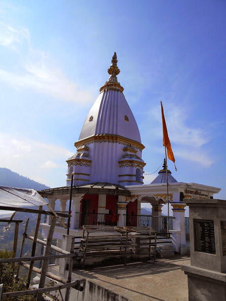 पाइलट बाबा आश्राम परिसरमा रहेको सोमनाथ मन्दिर